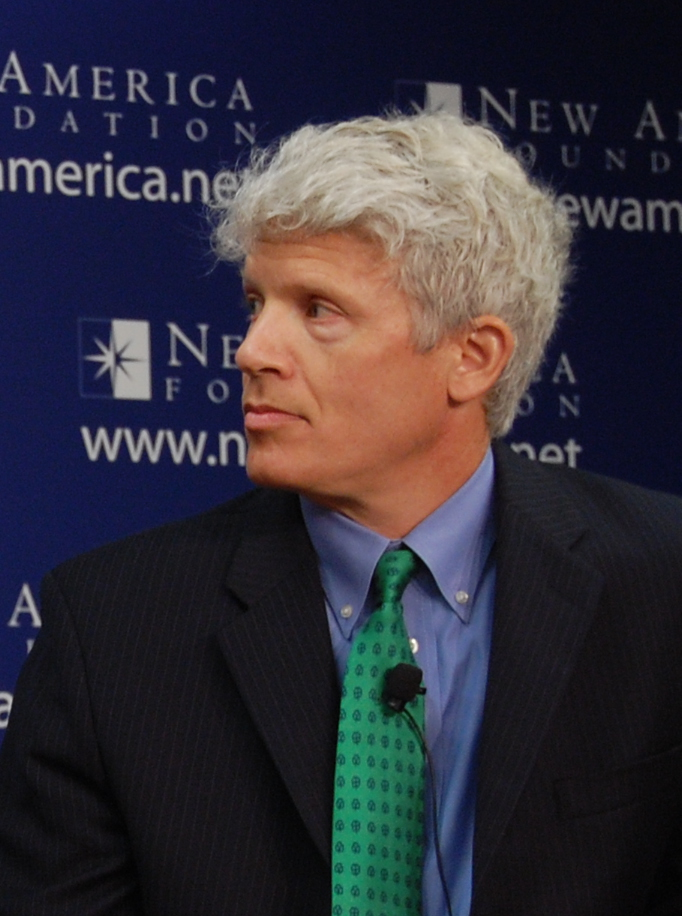 Speaking at the 10/19/2011 event "What Will Turn Us On in 2030?", sponsored by the New America Foundation.